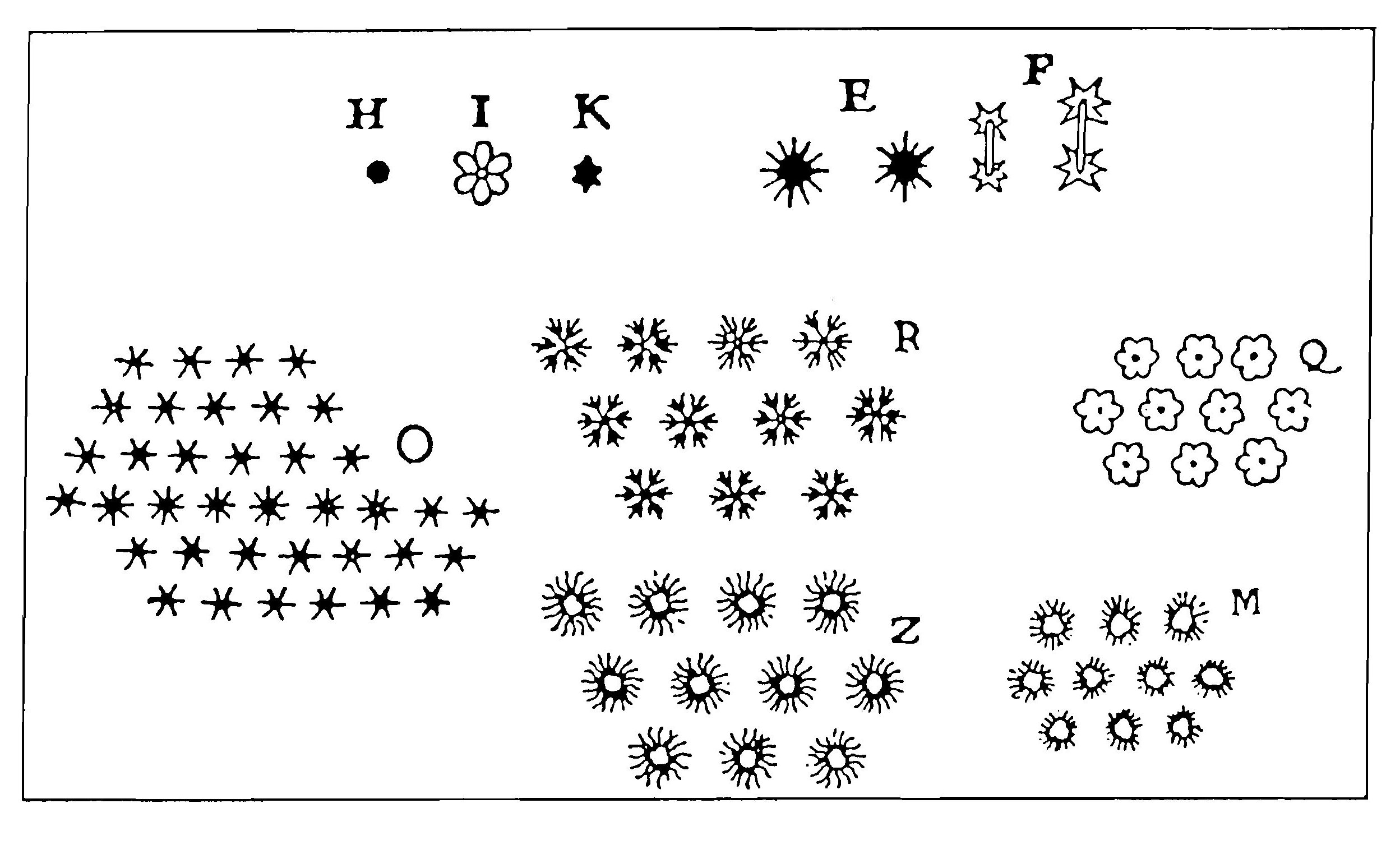 Sketch of snow crystal by René Descartes, inspired by Johannes Kepler's book.